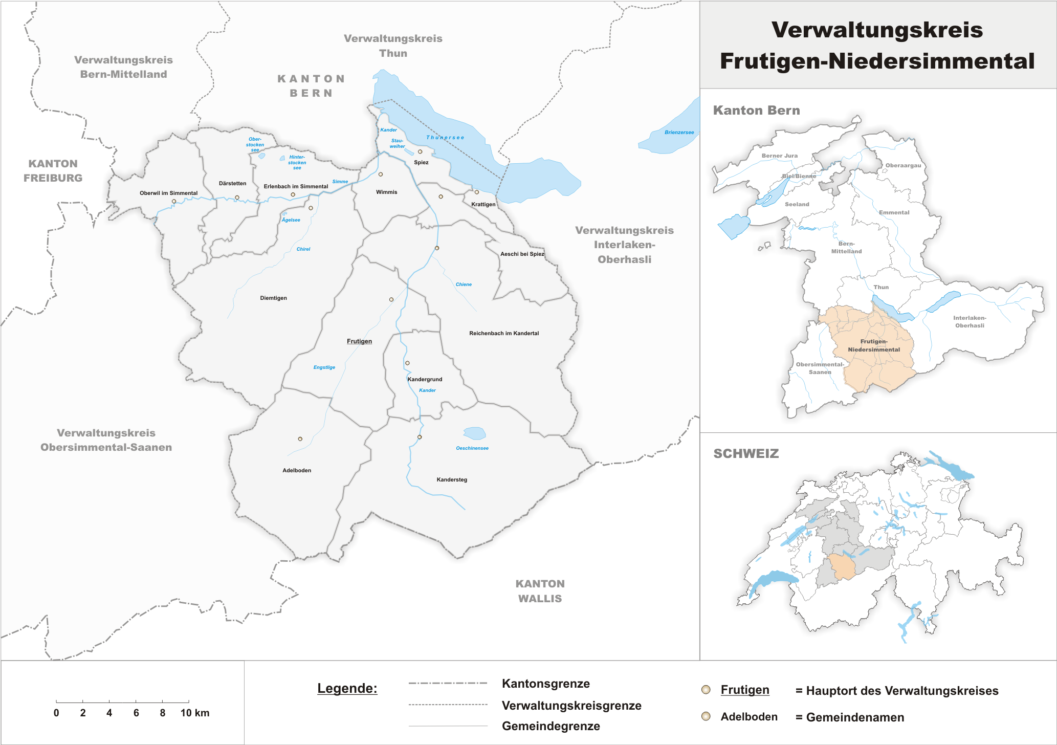 Municipalities in the district of Frutigen-Niedersimmental